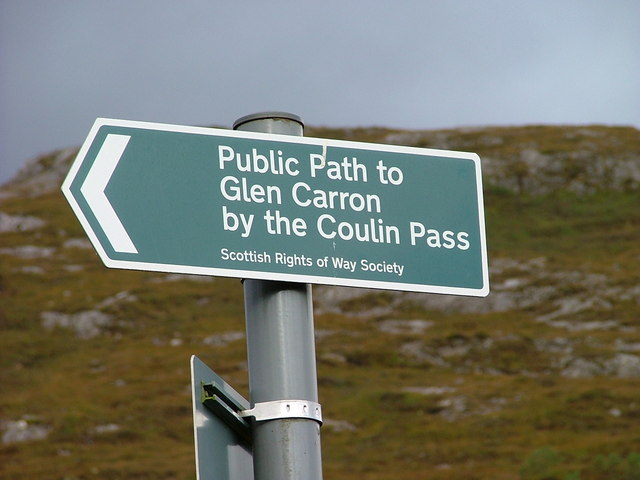 Scottish Rights of Way Society Sign. The right of way goes via Coulin Lodge.